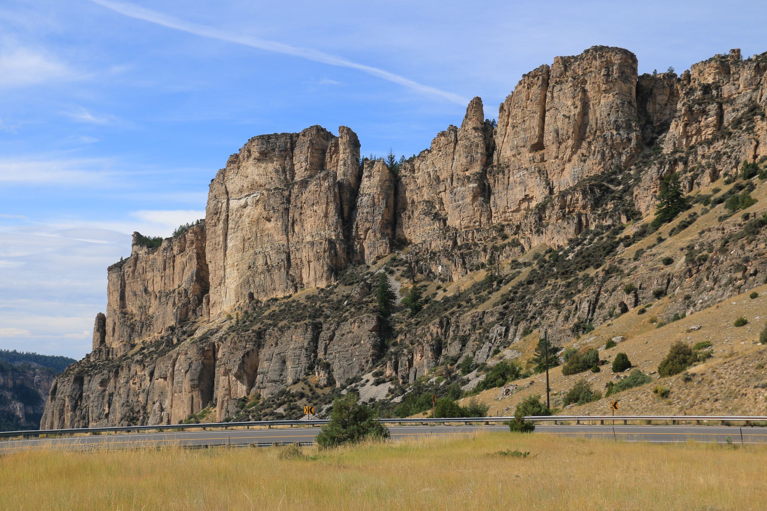 The Ten Sleep Canyon in the Bighorn Mountains